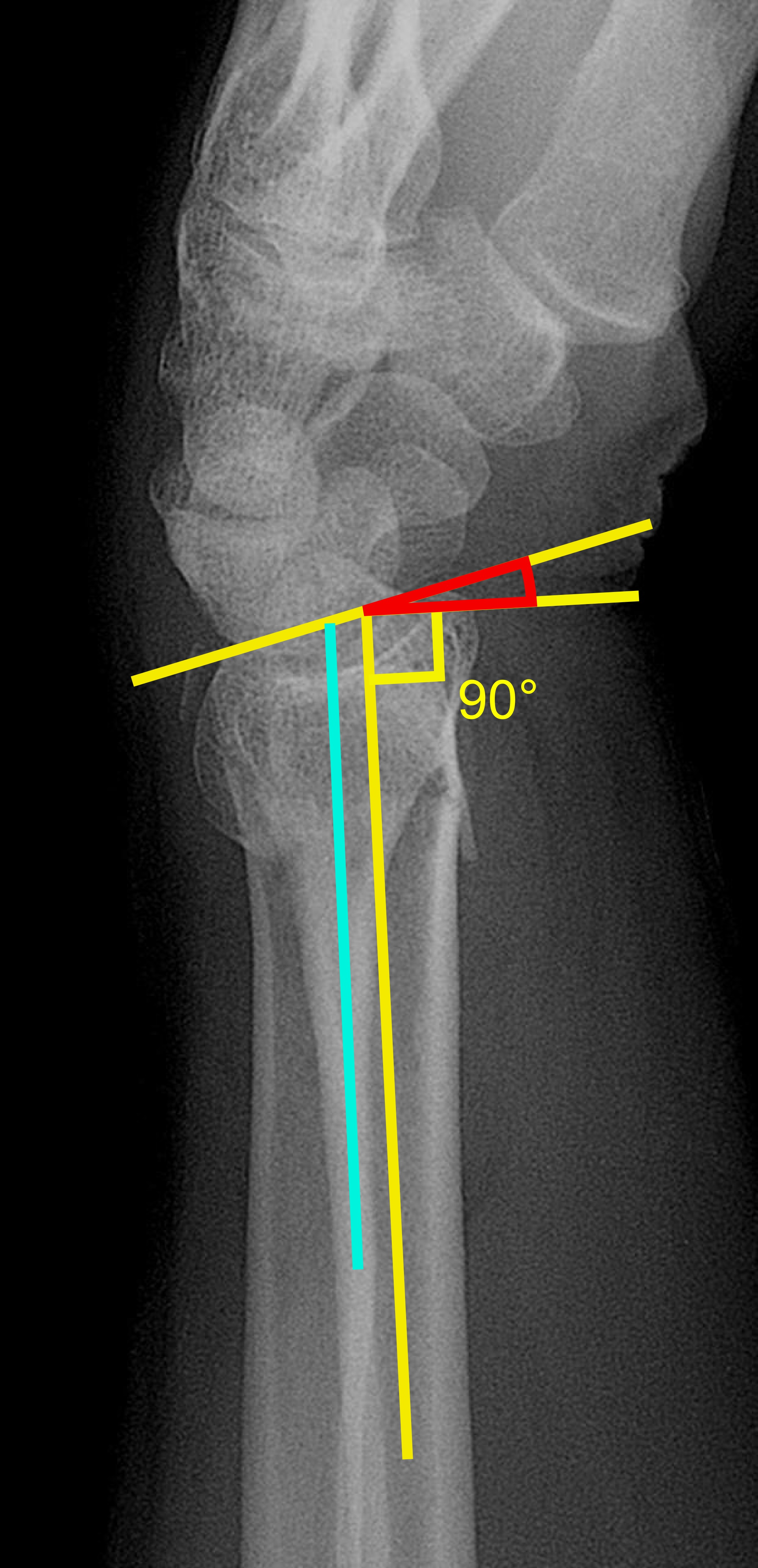 Dorsal tilt of a distal radius fracture. This angle is shown in red and goes between:[1] A line drawn between the distal ends of the articular surface of the radius. A line that is perpendicular to the diaphysis of the radius. Sometimes, the diaphysis of the radius is hard to distinguish from the ulna, and a line between them (turquoise line) may be used instead.[2] References ↑ (2011). "Fixação das fraturas da extremidade distal do rádio pela técnica de kapandji modificada: avaliação dos resultados radiológicos". Revista Brasileira de Ortopedia 46 (4): 368–373. ISSN 0102-3616. ↑ Dr Paresh K Desai. Colles fracture. Radiopedia. Retrieved on 2016-12-18.